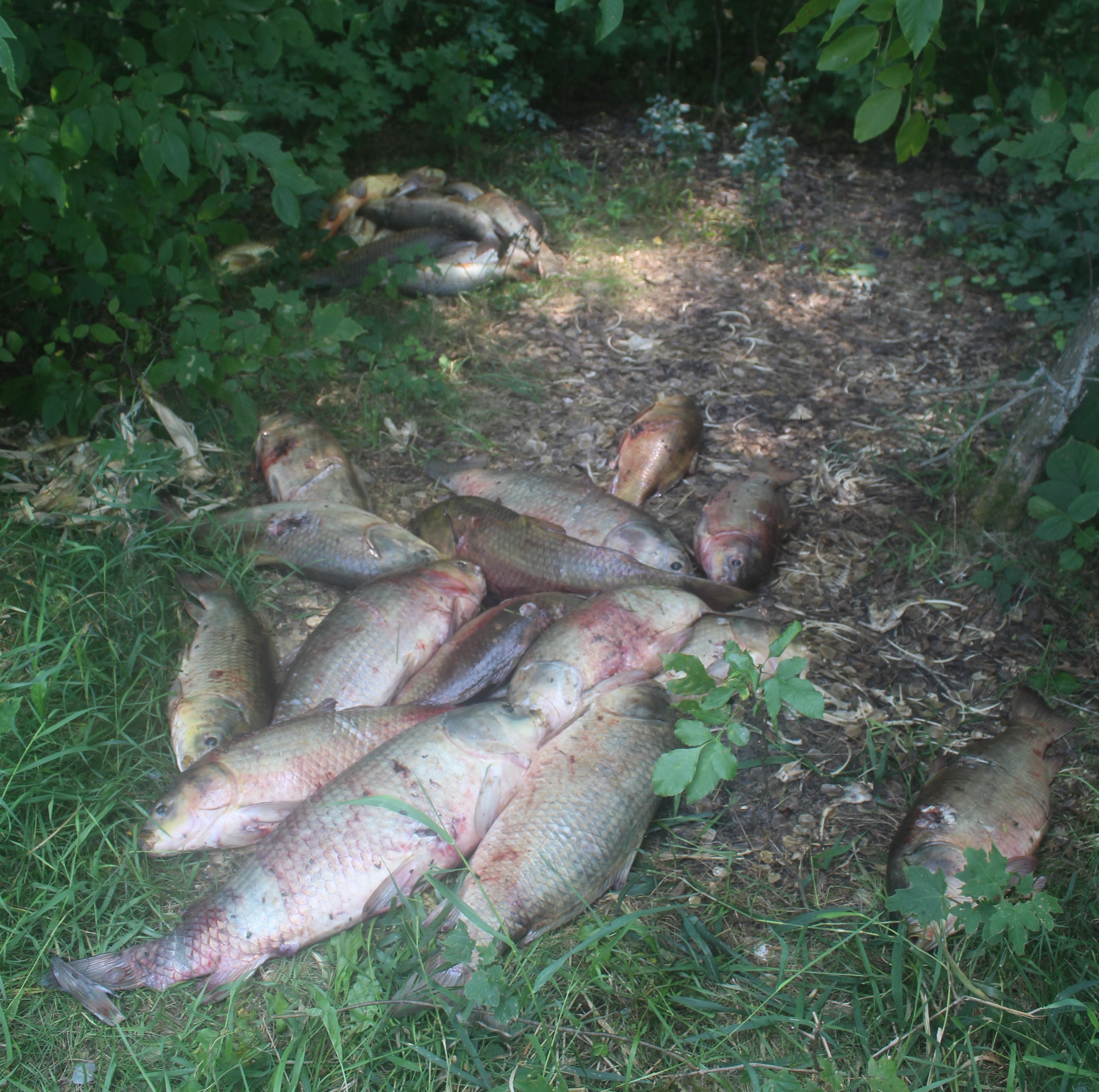 A discarded wanton waste pile of bigmouth buffalo shot by bow and arrow (bowfishing)